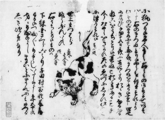 Ōneko (a giant cat, nekomata in Japanese) from a historic Kawaraban